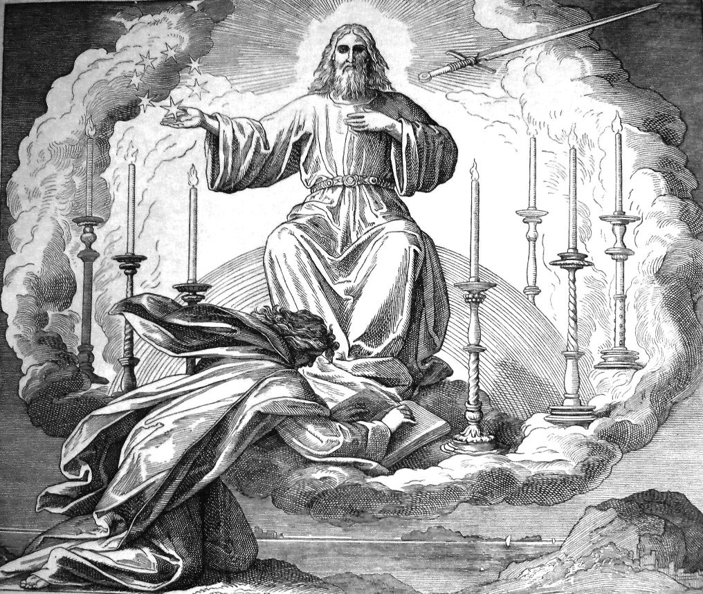 The vision of John on Pathmos